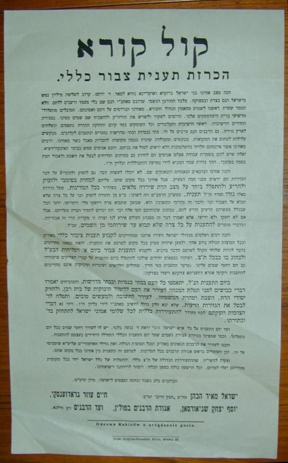 Poster 1929